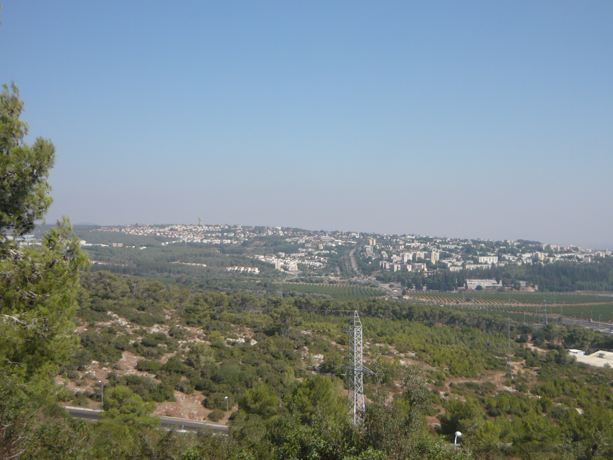 general view of migdal haemek מראה כללי של מגדל העמק מצפון מערב, צולם מ"מצפור זאב" בתמרת